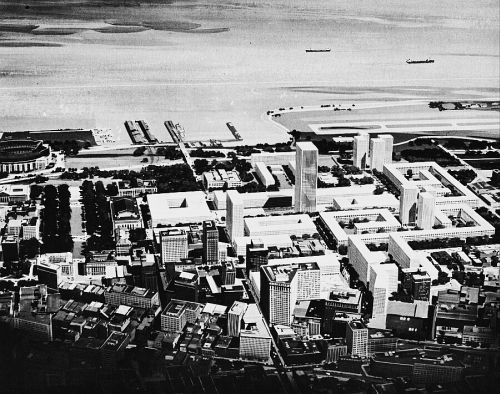 The original Erieview urban renewal plan. Source: On The Grow With Cleveland by Rose Marie Jollie. On The Grow With Cleveland was published by the now-defunct Central National Bank of Cleveland in 1965 and is currently out of print. Within the book, no copyright information was given relating to this image or the book itself.